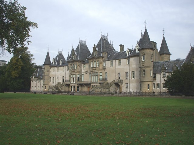 Callendar House, Falkirk